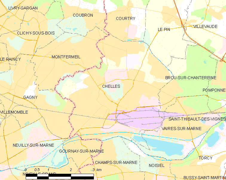 Map of French municipality Chelles